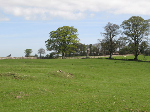 Halton Chesters (Onnum) Roman Fort - southeast part